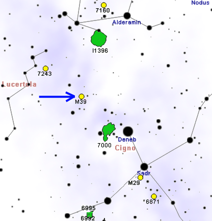 M39